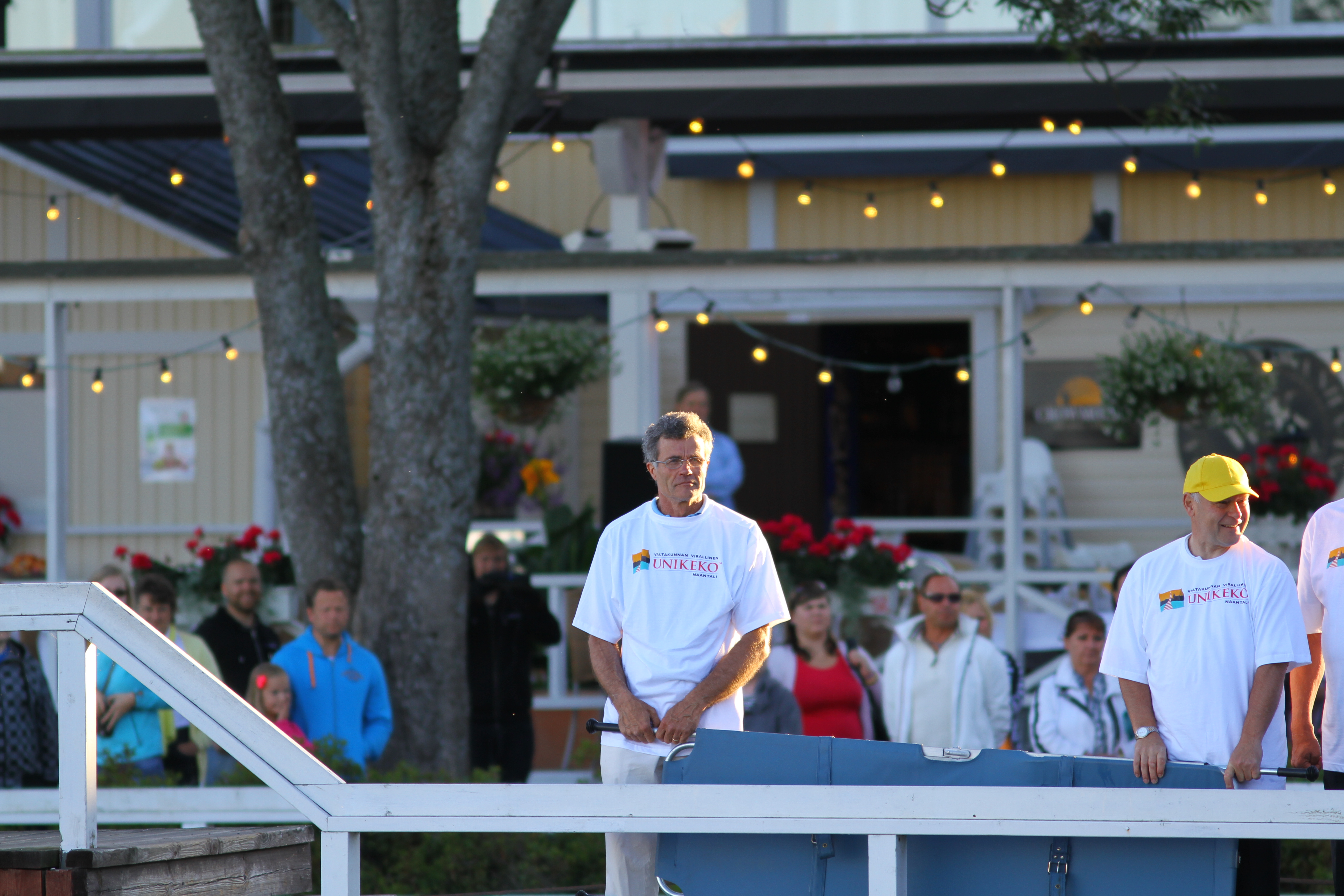 National Sleepy Head Day (Finnish: Unikeonpäivä) in the city of Naantali, Finland.